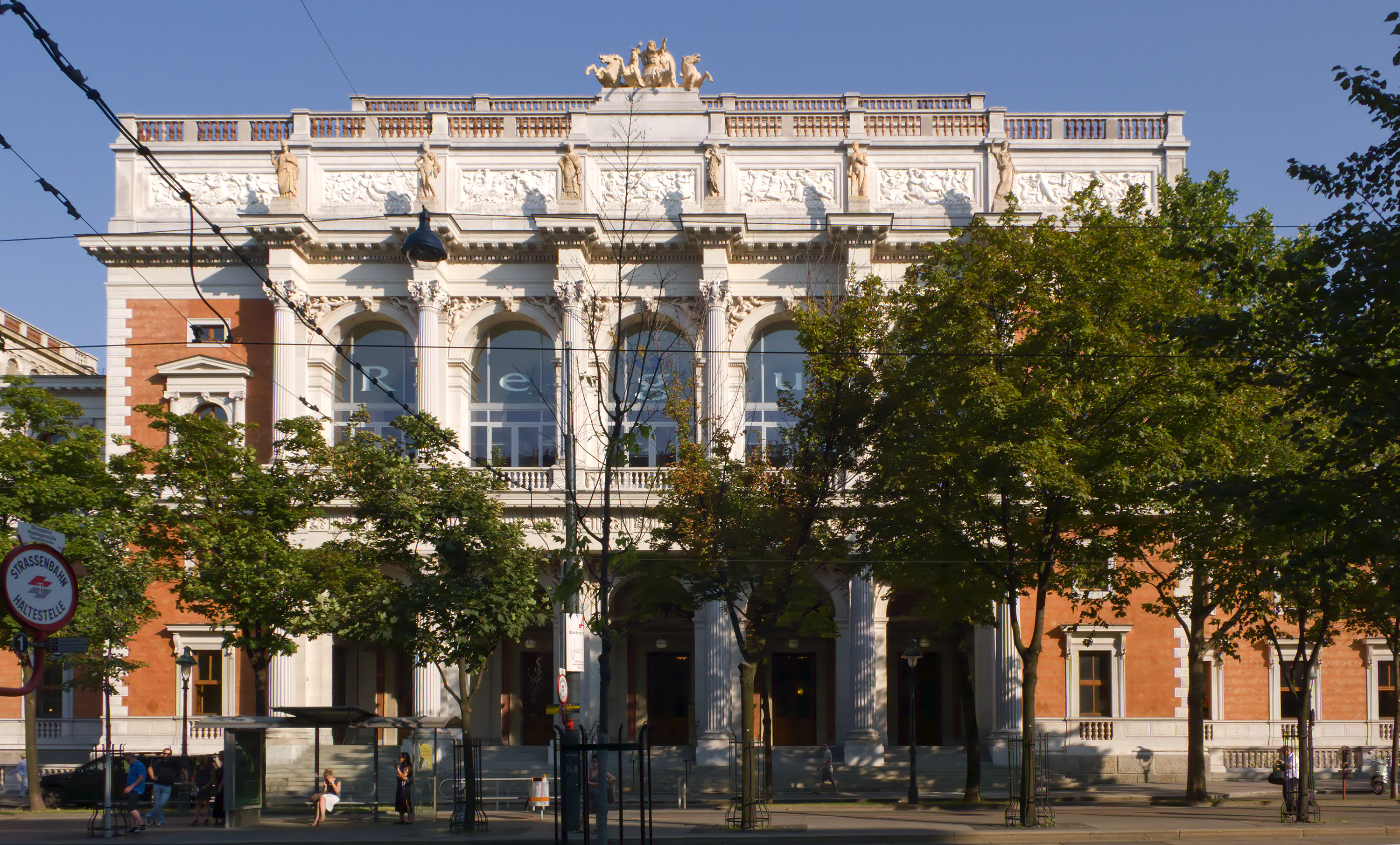 Stock Exchange Wiener Börse (Gebäude) in Vienna Innere Stadt